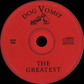 CD of Elvis Presley’s bootleg – Elvis’ Greatest Shit (1997)